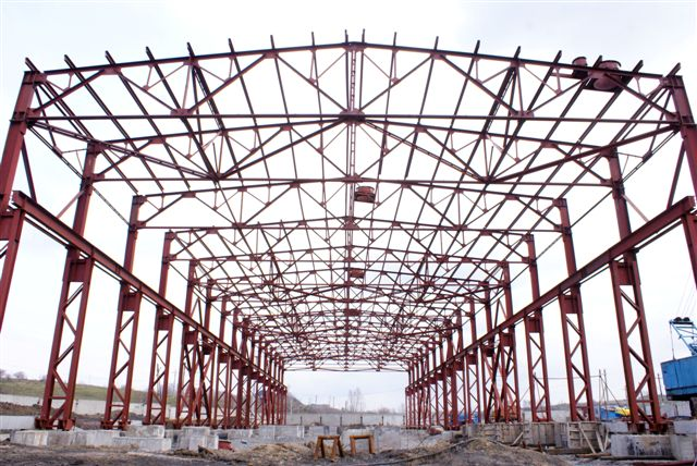 Gramoteinskie